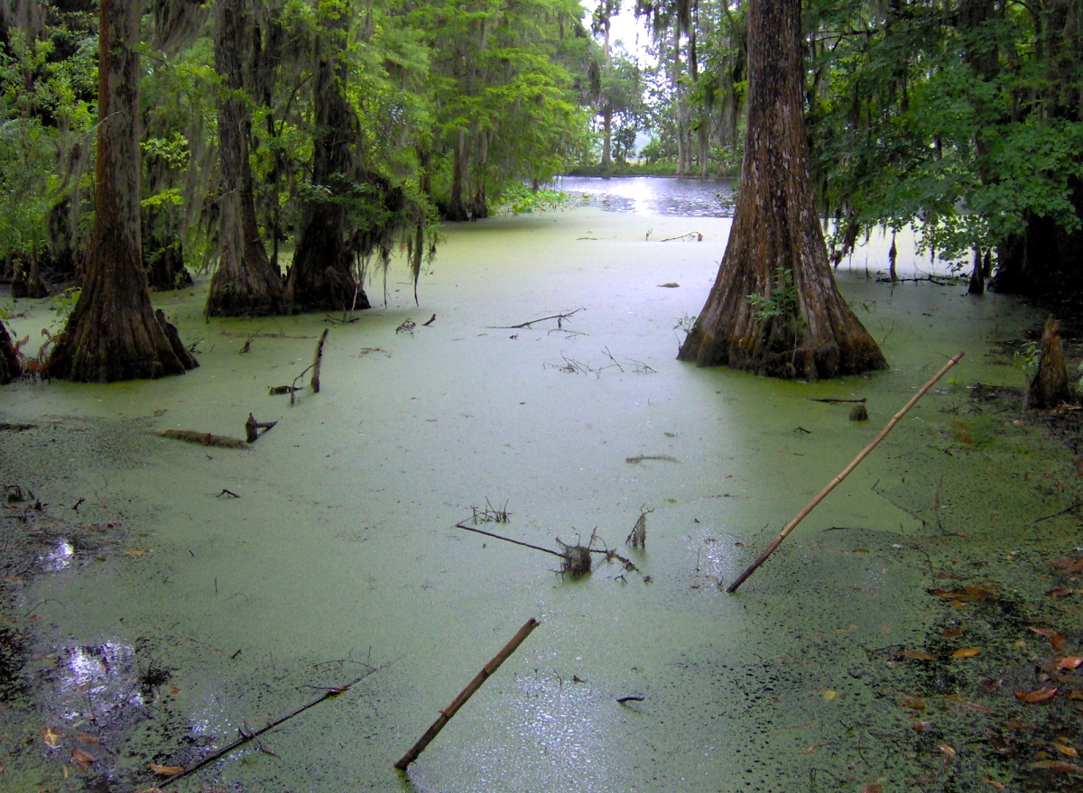 Swamp in the northwest, undeveloped section of Middleton Place, near Charleston, South Carolina, USA.